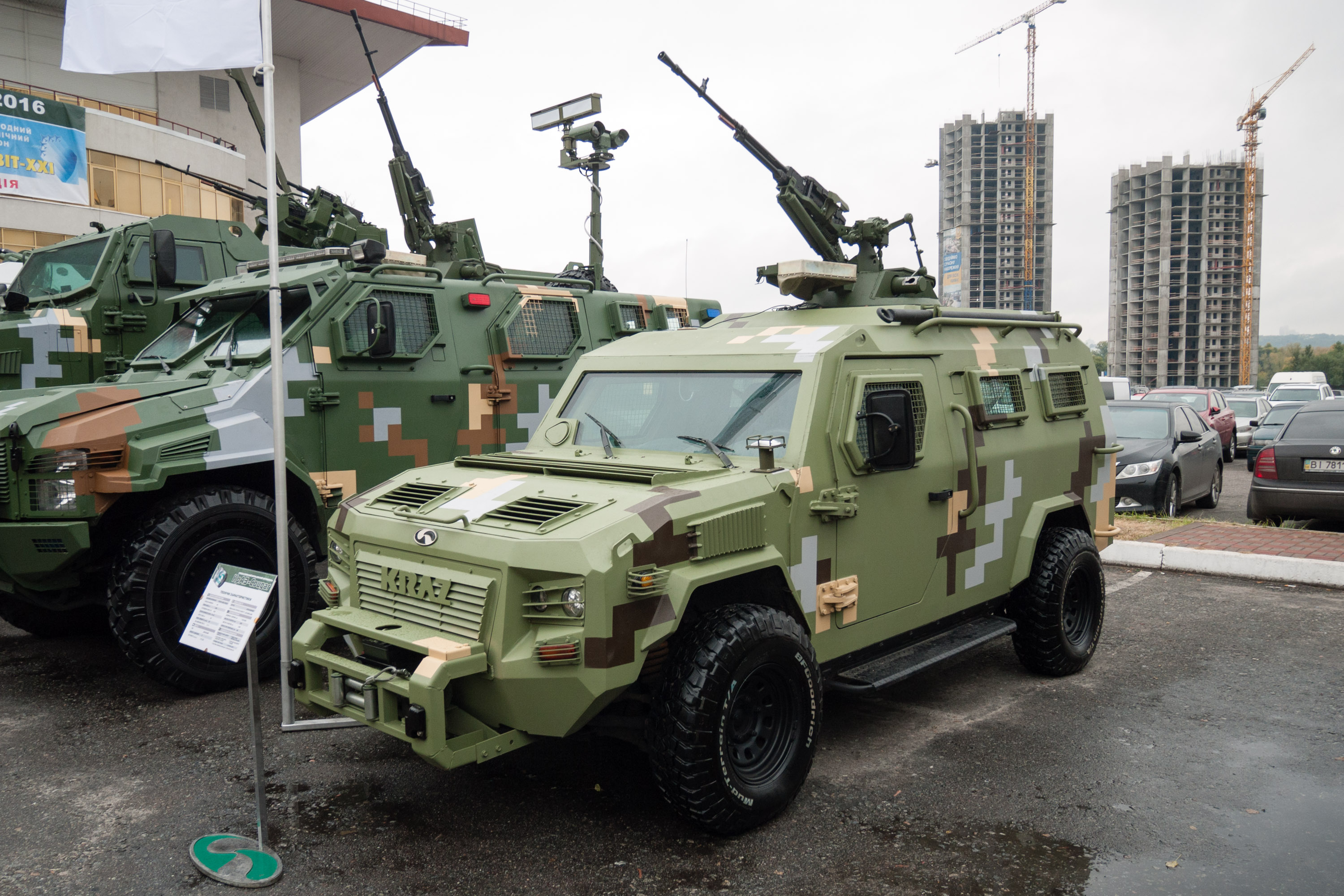 KrAZ Cougar (2016) view